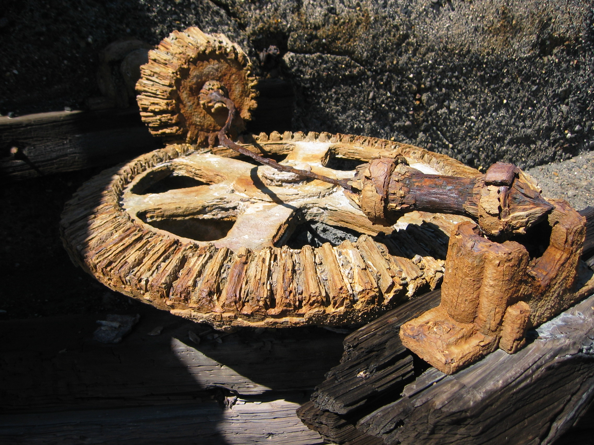 Corroding iron machinery at the White Island sulphur mine, abandoned after a lahar killed all the workers in 1914.